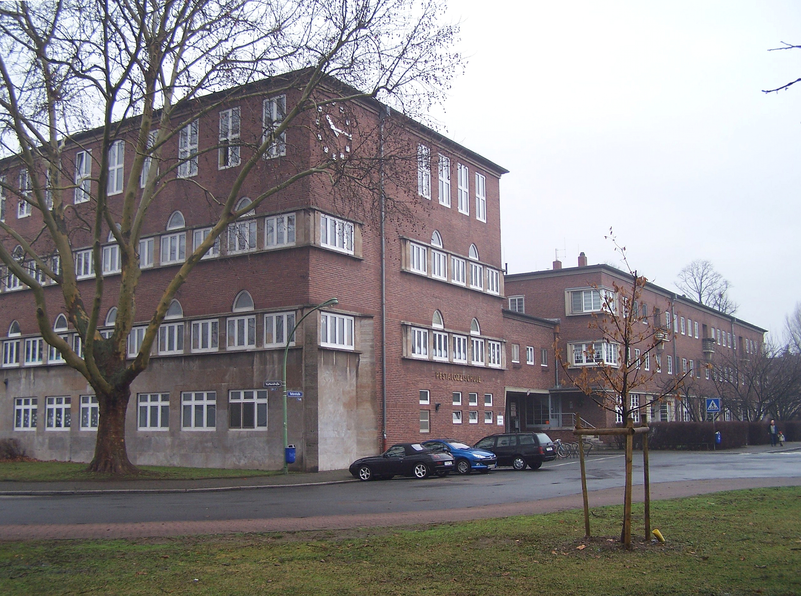 Southern fassade of the Pestalozzi-School in Frankfurt am Main-Seckbach from the architekt Martin Elsaesser